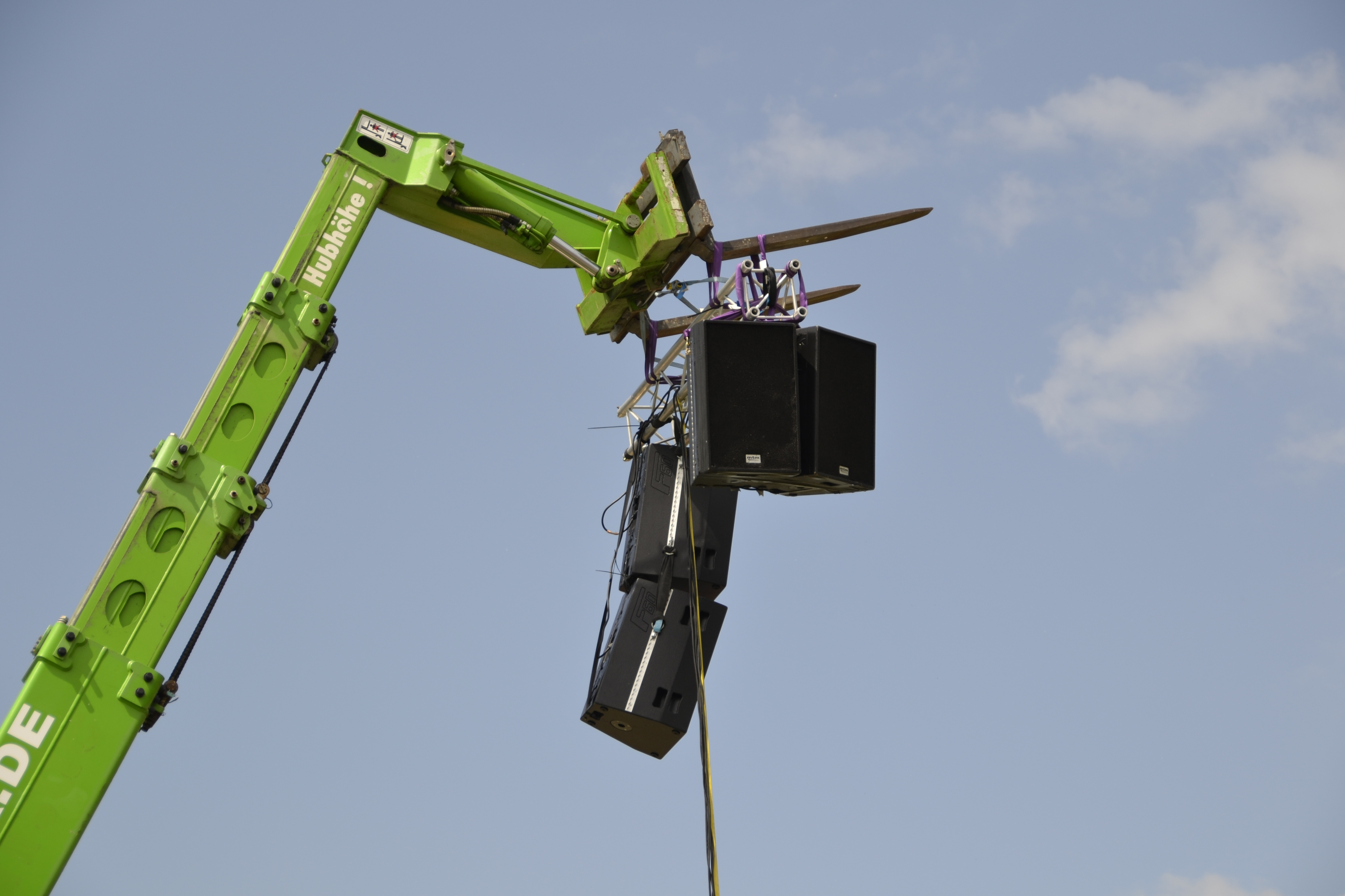 Loud speakers at the air show Flughallenfest Vilshofen 2012.